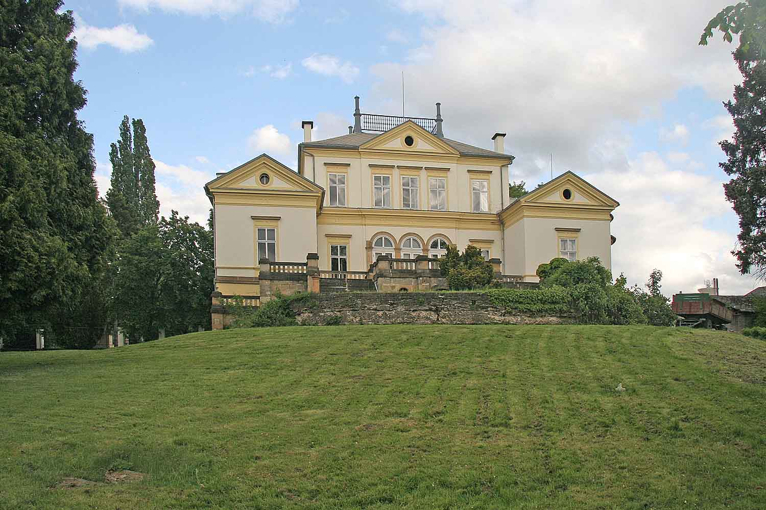 Manor house in Dobřenice, Czech Republic.